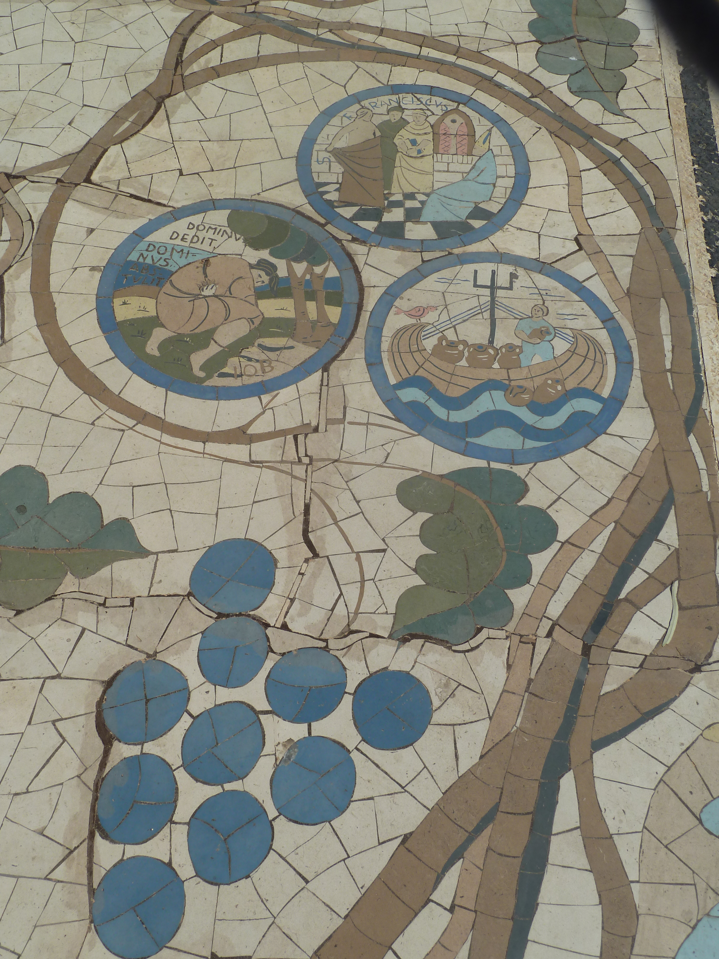 Mosaics in Mount of Beatitudes: (1) Francis of Assisi (2) Job (words: Job 1:21) (3) Identification unsure: Saint Paul alleviating the ship in the storm (Acts 27:38} ?